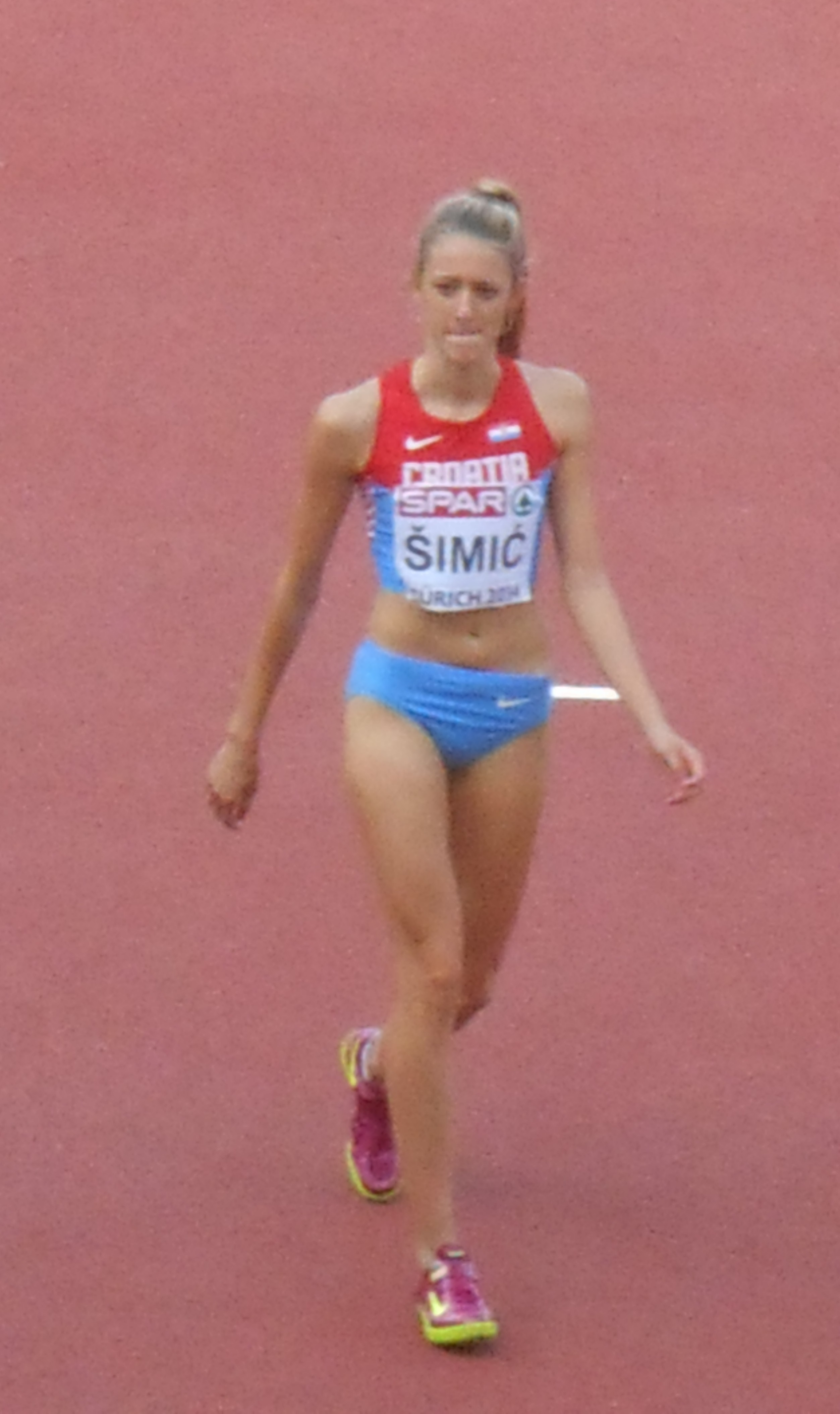 Ana Šimić at the 2014 European Athletics Championships.